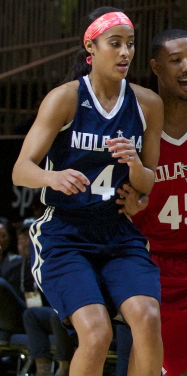 Arne Duncan at the 2014 NBA Celebrity All Star game. Skylar Diggins (4) and Michael B. Jordan also pictured.